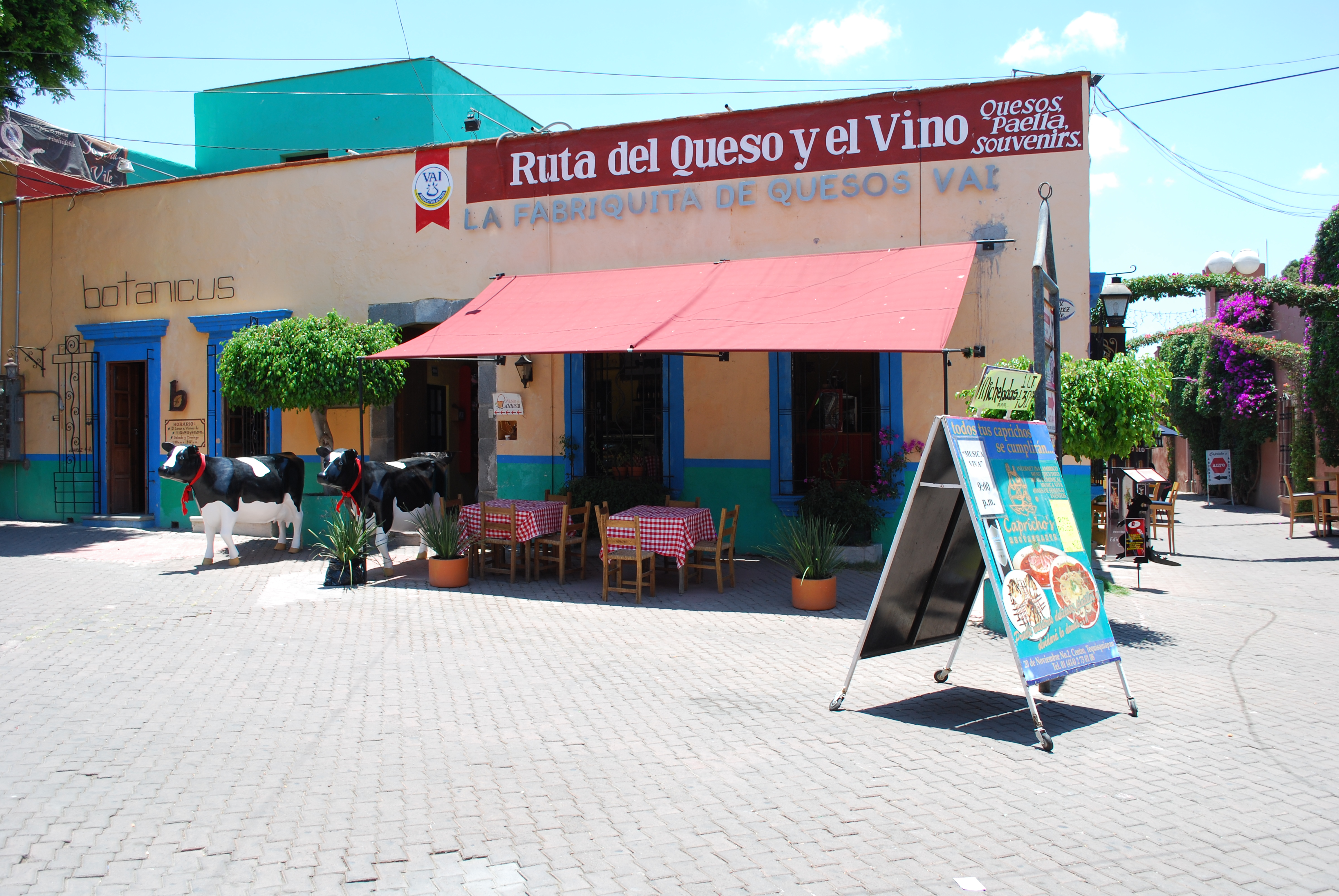 Wine and cheese shop in Tequisquiapan, Queretaro, Mexico